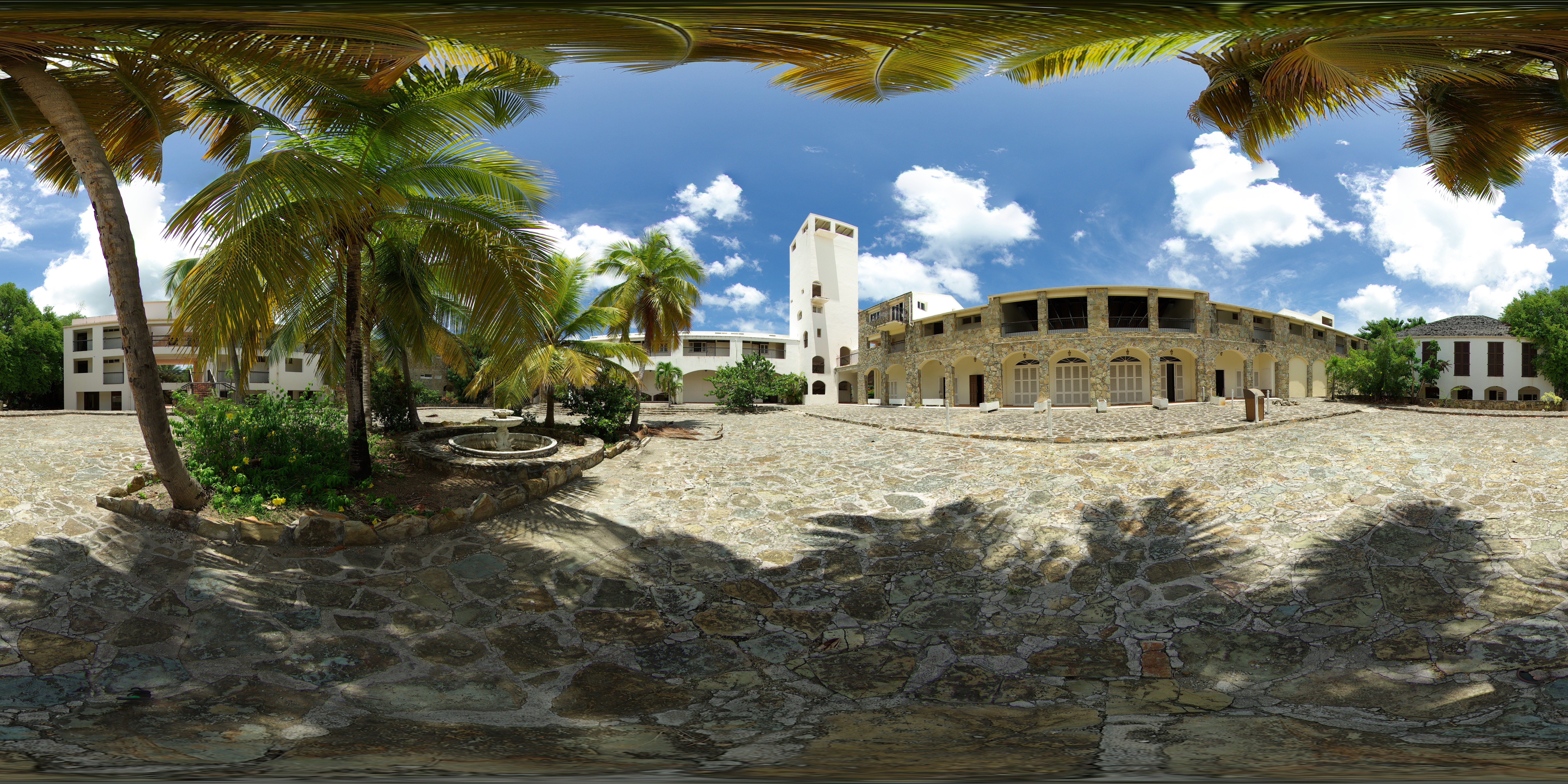 Equirectangular panorama built from 8 pictures. Original 10000x5000 picture on demand, it's too big for flickr (14MB). See also its stereographic projection.